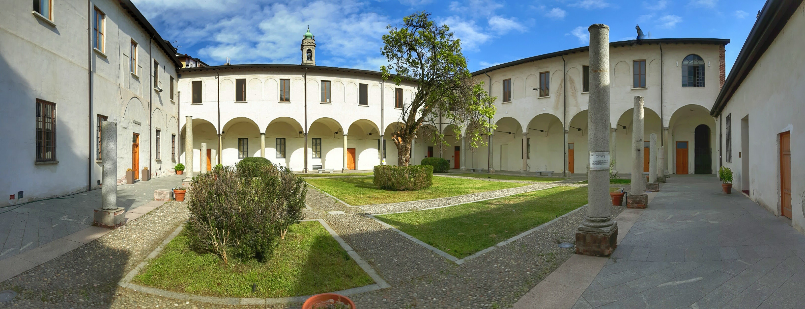 Antiquarium Alda Levi (Milan) - Cloister